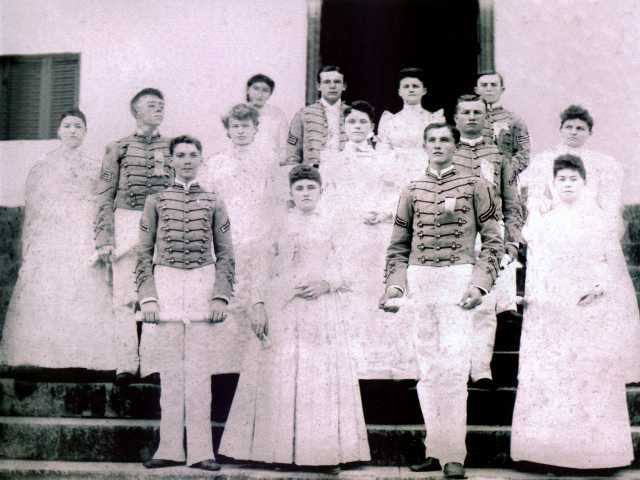 1890 Central Georgia Military and Agricultural College graduating class. Photo taken on steps of Old Capital Building. Front row (l to r): Alfred Atwood (McRae, GA), Eldna Young (Mrs. Butts, Devereux, GA), Oscar Wall (Congressman, Putnam County, GA), Annie Harper (Mrs. Jessie Reeves, Milledgeville, GA) Second Row (l to r): Evalan McDowell, Ebb Skinner (Merchant, Milledgeville, GA), Elizabeth Louisa Moran (Mrs. James Ivy Roberts, Milledgeville, GA), Cora Ennis (Mrs. Julius Holt, Milledgeville, GA), Charles Wesley Moran (brother of Bessie Lou Moran and Superintendent of Schools, Hancock COunty, GA), Alice Campbell (roommate of Bessie Lou Moran) Third row (l to r): Ethel Bass (married a man from Brazil), Ed Culver (2nd Honor Graduate, Sparta, GA), Etta Brown (Dr. G. A. Lawrence, Milledgeville, GA), Ernest Smith (1st Honor Graduate and minister)